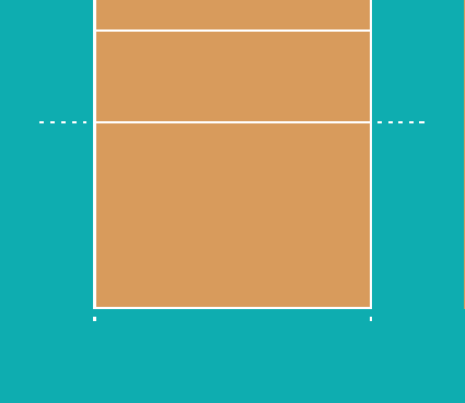 Volleyball half court. Created with Gimp